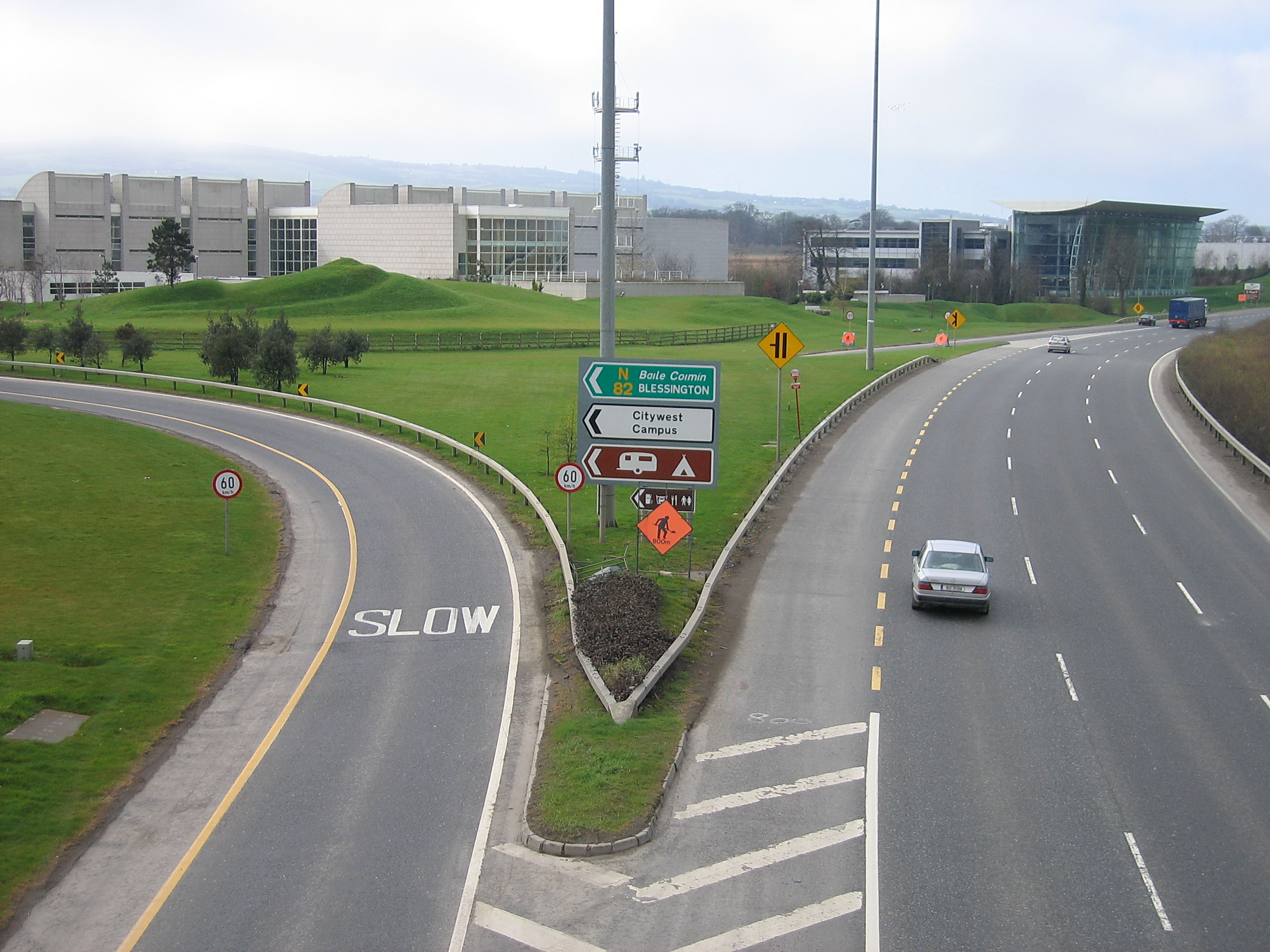 Citywest, County Dublin, near to Kingswood and Saggart, Dublin, Ireland. The Citywest Exit on the N7 southbound.